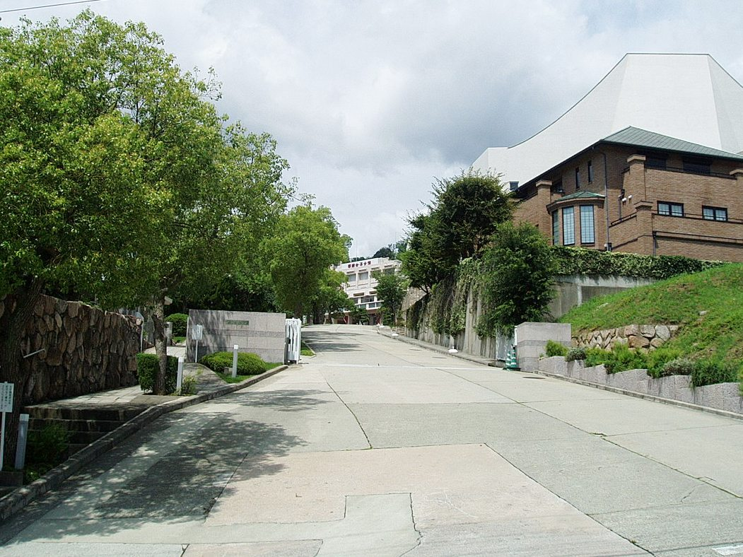 Main entrance to Konan Women's University located in Higashinada-ku, Kobe, Hyogo, Japan.